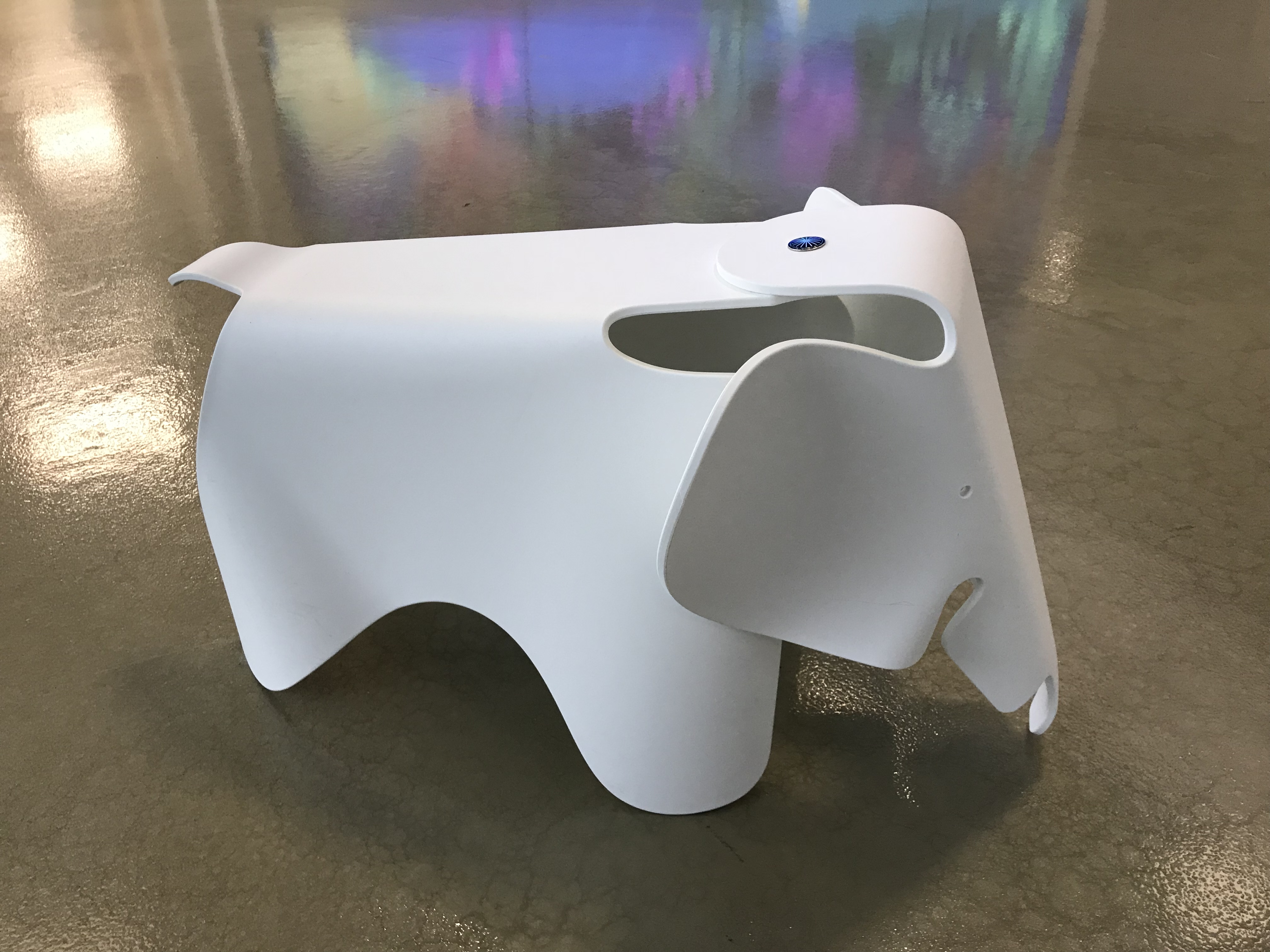 Elephant designed by Charles and Ray Eames at the New Children's Hospital in Helsinki, Finland.